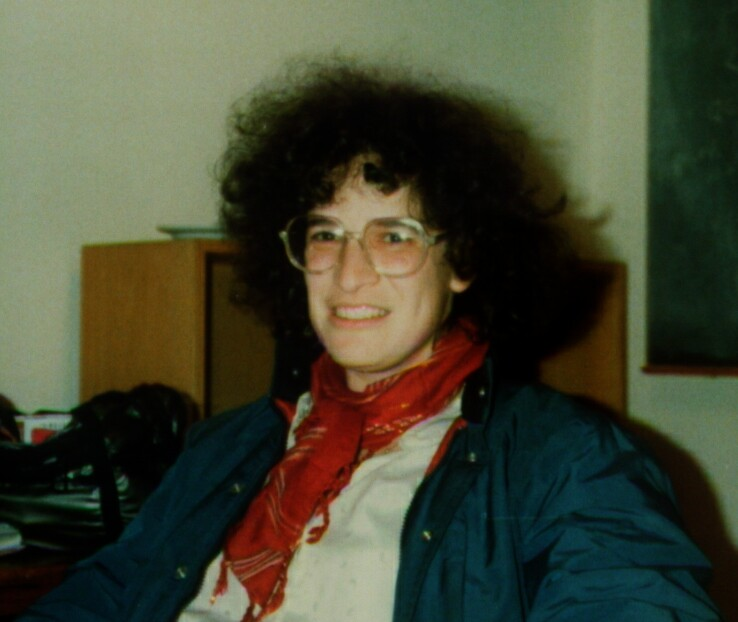 astrophysicist Margaret Geller (1981 photo)